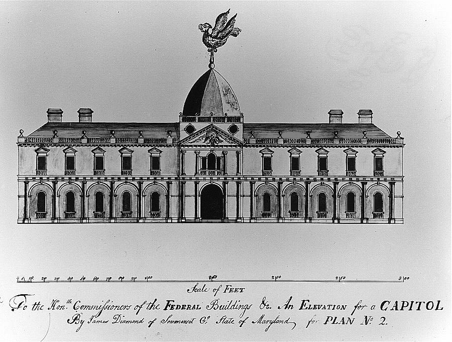 Design for the U.S. Capitol, "An Elevation for a Capitol,"